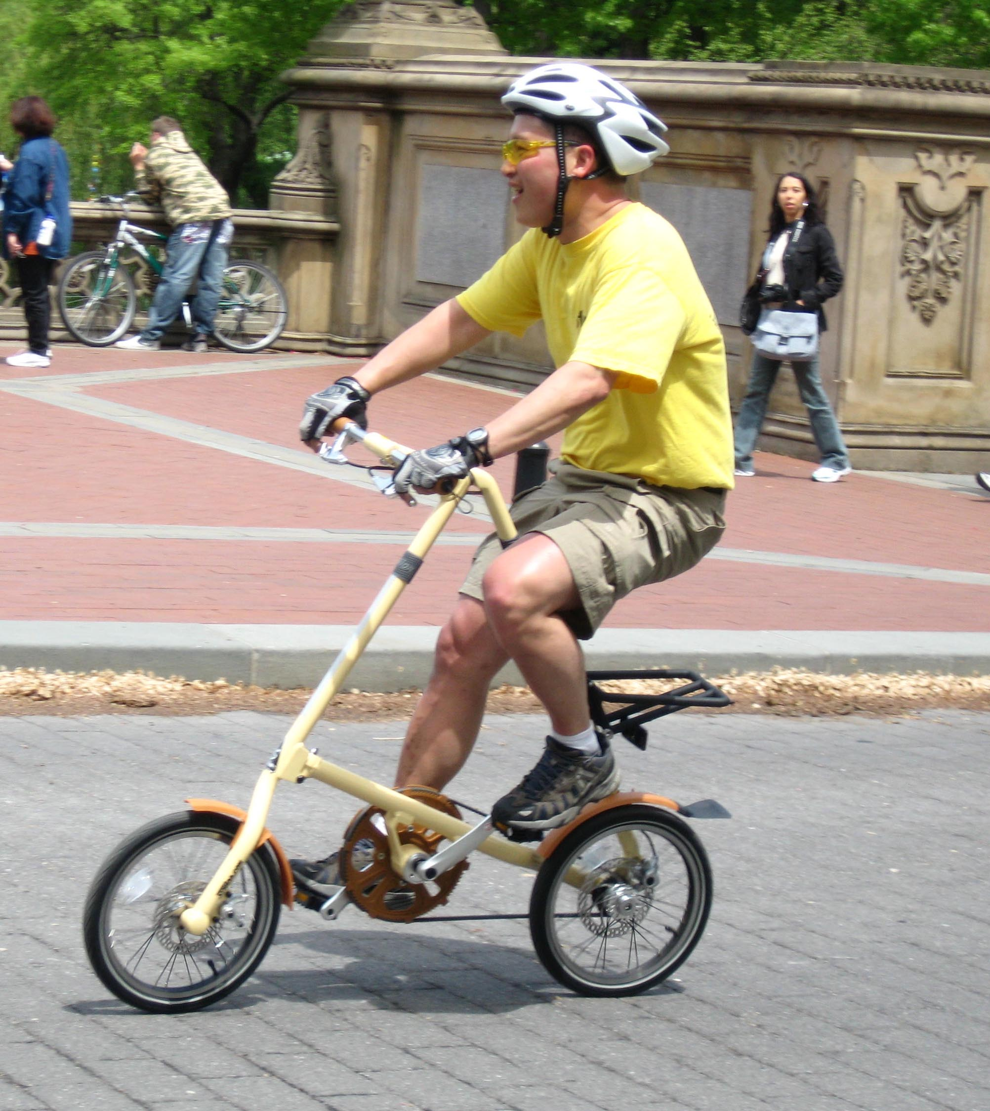 Looking north at Bethesda Terrace as Strida crosses finish line of a folding bike race.